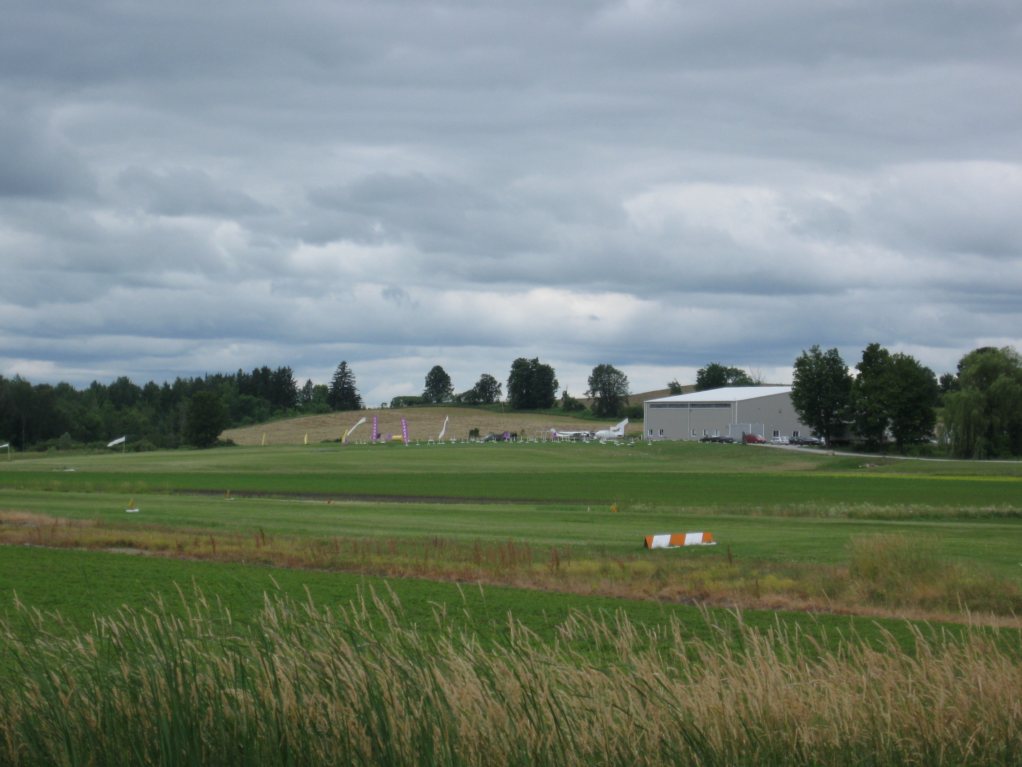 Cookstown Airport, taken looking SW from the corner of 4th line (Kilarney Beach) and 10th sideroad (Huronia Rd).